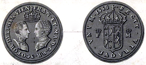 Medal struck at Paris commemorative of the marriage of Francis, Dauphin of France, and Mary, Queen of Scots